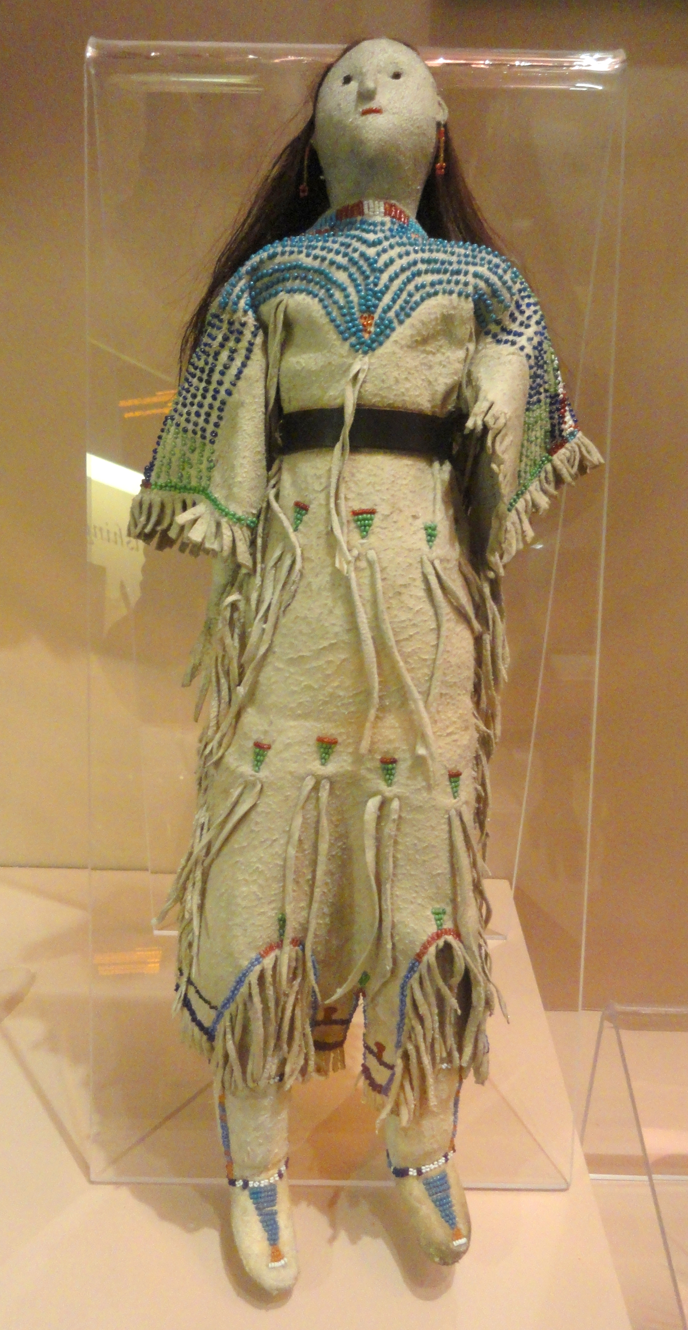 Doll, Ute, acquired in 1905. Exhibit from the Native American Collection, Peabody Museum, Harvard University, Cambridge, Massachusetts, USA. Photography was permitted without restriction; exhibit is old enough so that it is in the public domain.